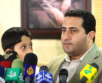 بازگشت شهرام امیری به ایران